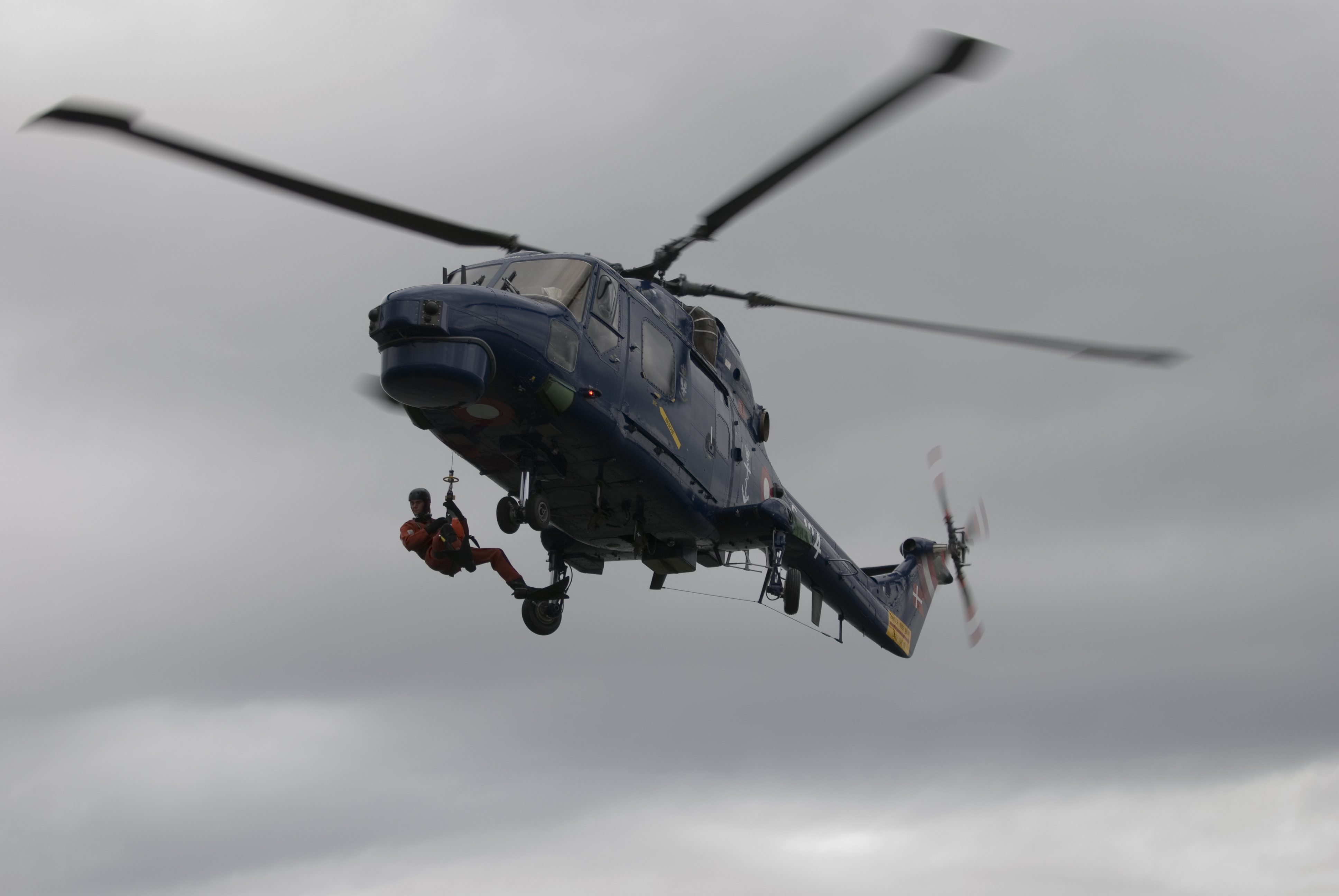 Danish navy helicopter (Westland Lynx) with a rescue swimmer, ready for insertion